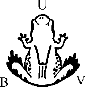 logo of the Utrecht Biology Society ('Utrechtse Biologen Verening' or 'UBV' in Dutch)